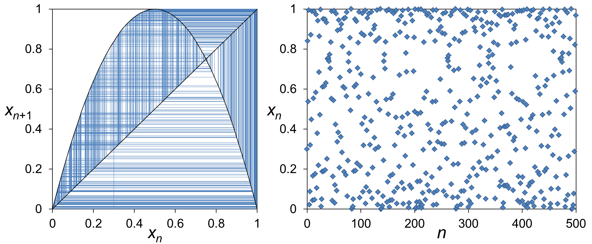 example of cobweb plot and time series of logistic map, parameter a is 4, initial vale x0 is 0.3, discrete time n is from 0 to 500.